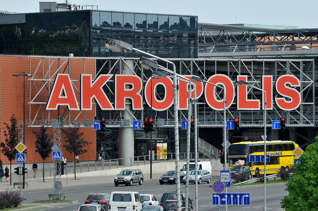 Akropolis was finished and opened in 2007 and is located in a 4-storey building with the gross area of over 80.000 m2 that is located in the city centre. The property features 253 operators – retailers, restaurants, cafés and entertainment providers. The shopping centre also comes with an ice skating arena surrounded by a food court, a bowling alley and a cinema. In 2008 Akropolis welcomed 14,02 million visitors.